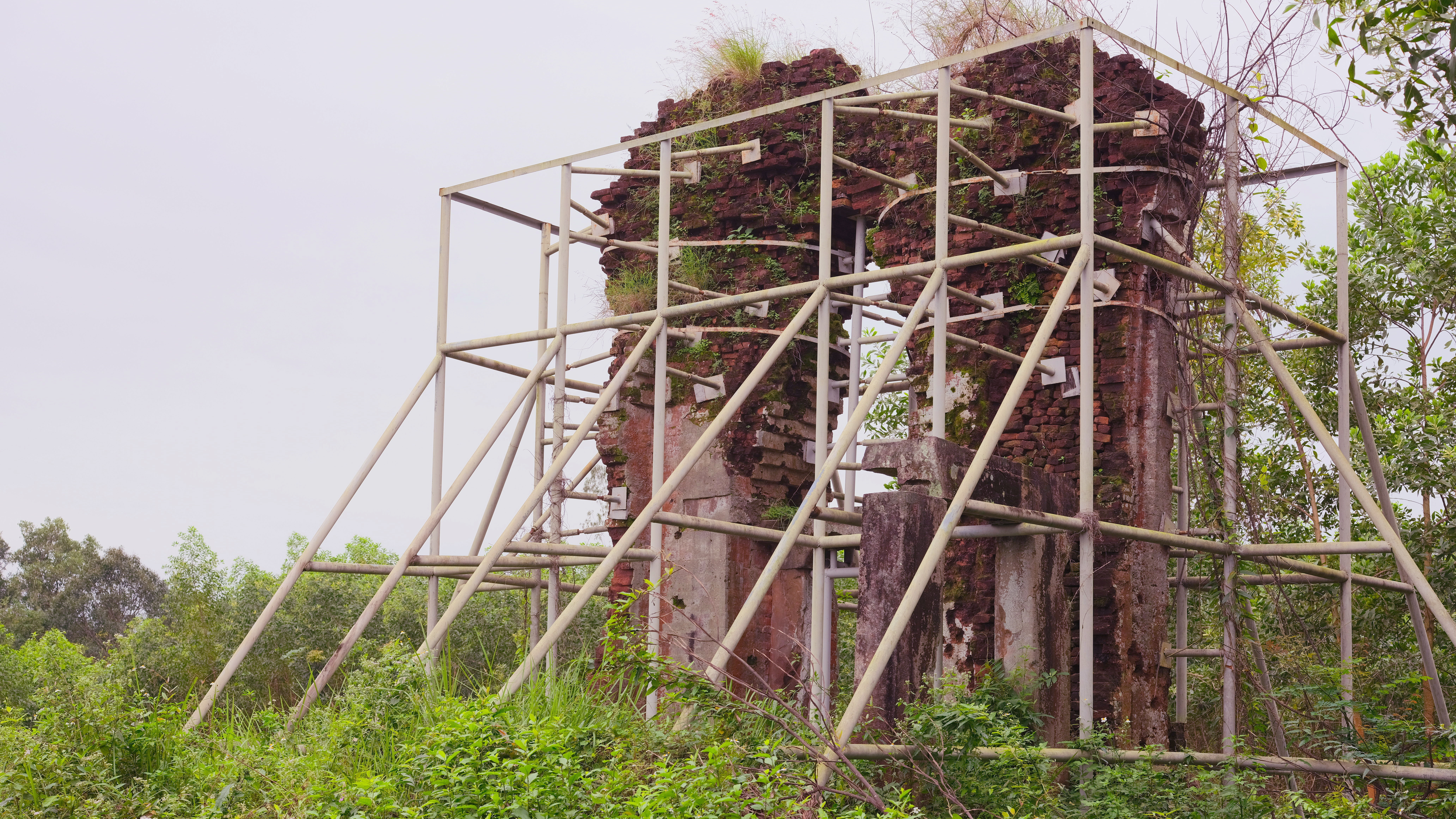 Remains of Cham building in Đồng Dương sanctuary, Vietnam.